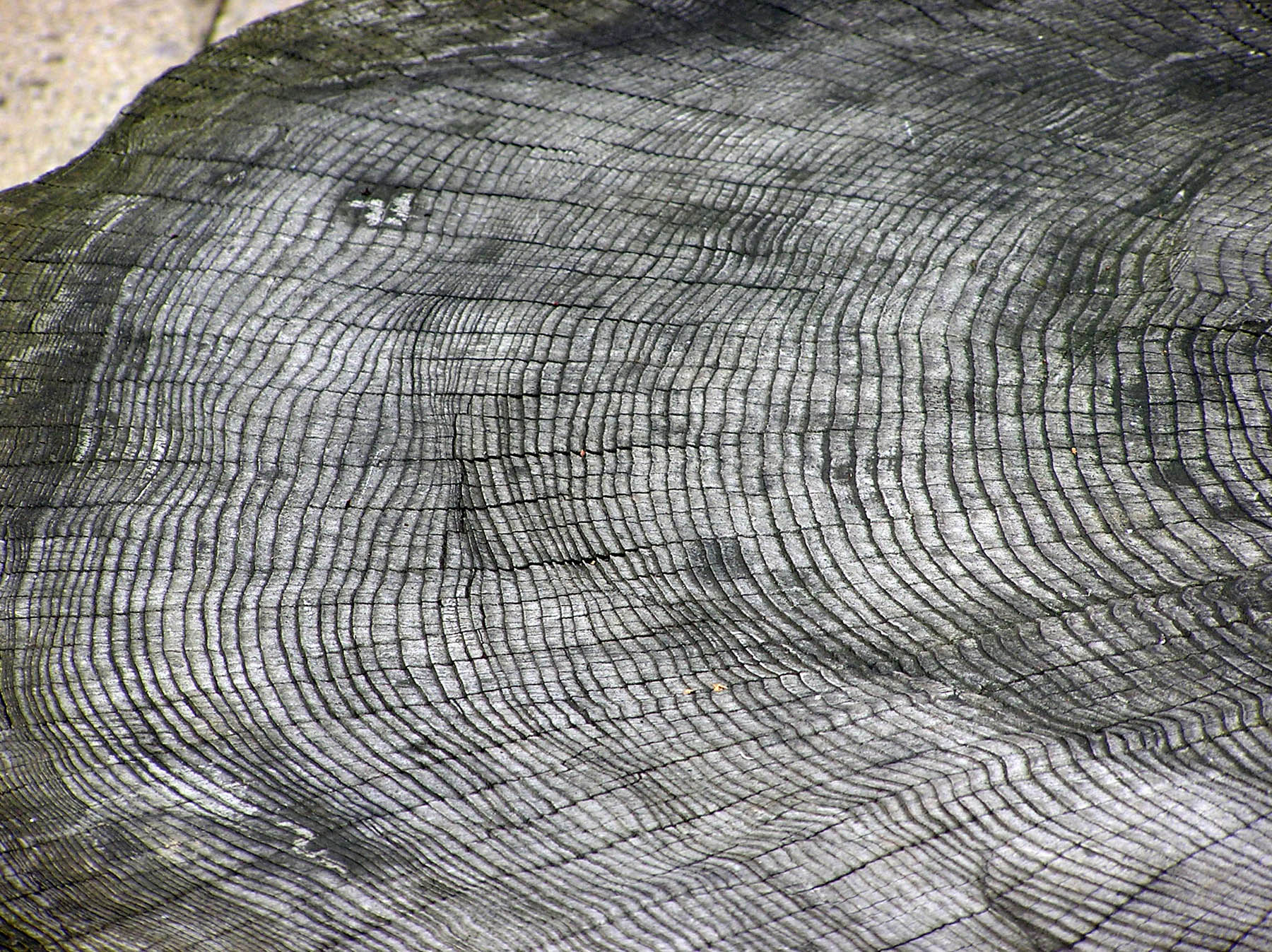 The growth rings of an unknown tree species, at Bristol Zoo, Bristol, England. This trunk is three feet (1 metre) across. Notice that a ring is not of uniform width i.e. it cannot be assumed that a wide ring represents a good growing season since the opposite conclusion could be made elsewhere on the same ring. Photographed by Adrian Pingstone in September 2005 and released to the public domain.